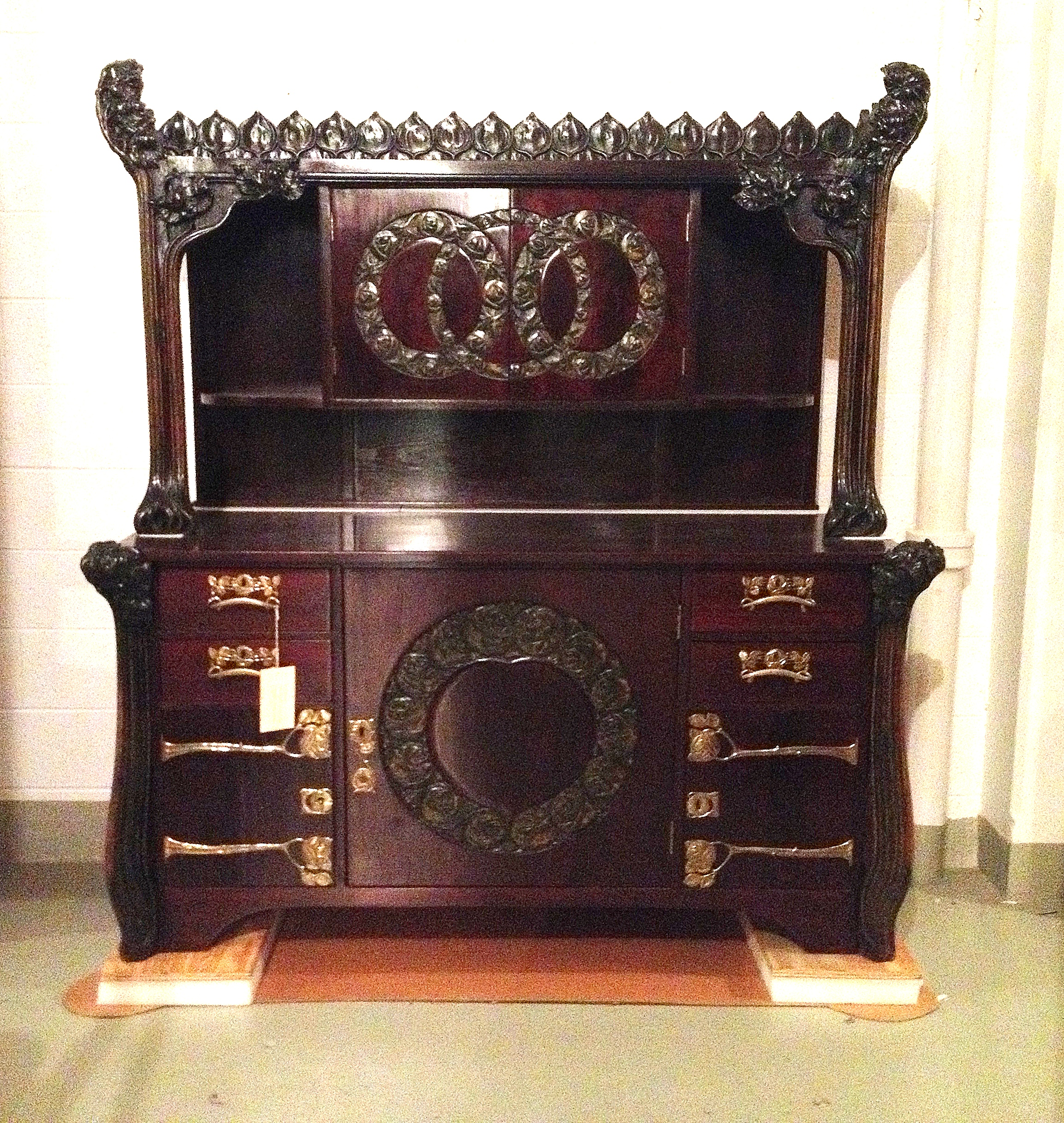 Austrian Art Nouveau sideboard in collection of The Wolfsonian-FIU, Miami Beach, Florida, USA.